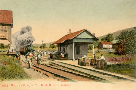 The old Boiceville Station. This station was demolished during the impoundment of the Esopus Creek to make the Ashokan Reservoir, although the station site rests just above the water line.